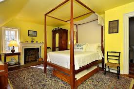 Picture of upstairs bedroom at Bel Air Plantation